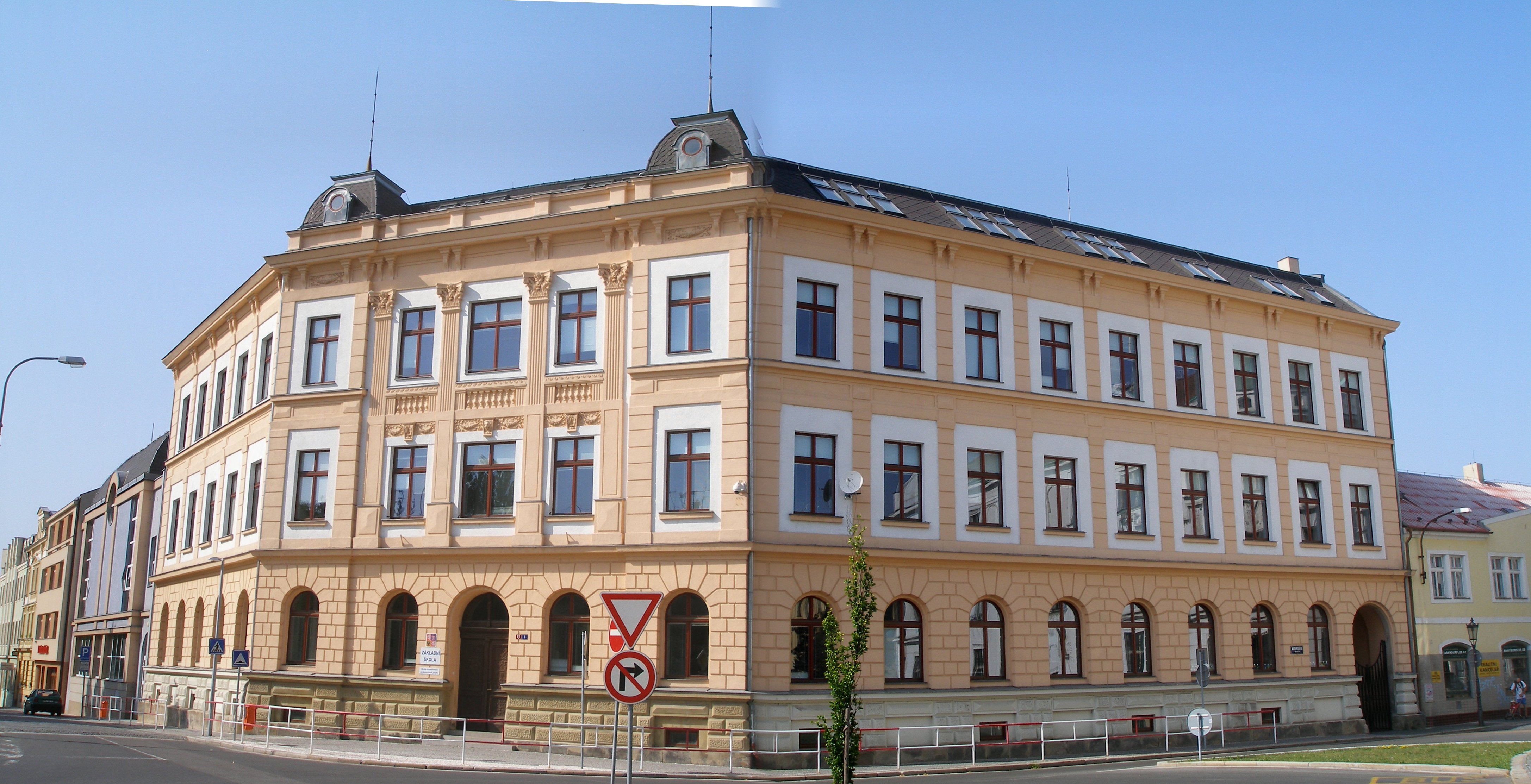 Primary school in the north of Comenius Square in Mlada Boleslav